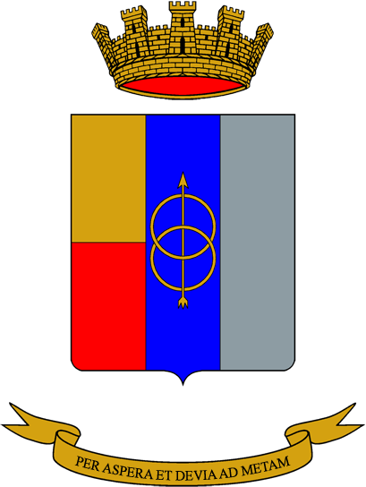 Coat of Arms of the Logistic Regiment "Pinerolo" (former: 10° Transport Battalion "Appia"); Italian Army.